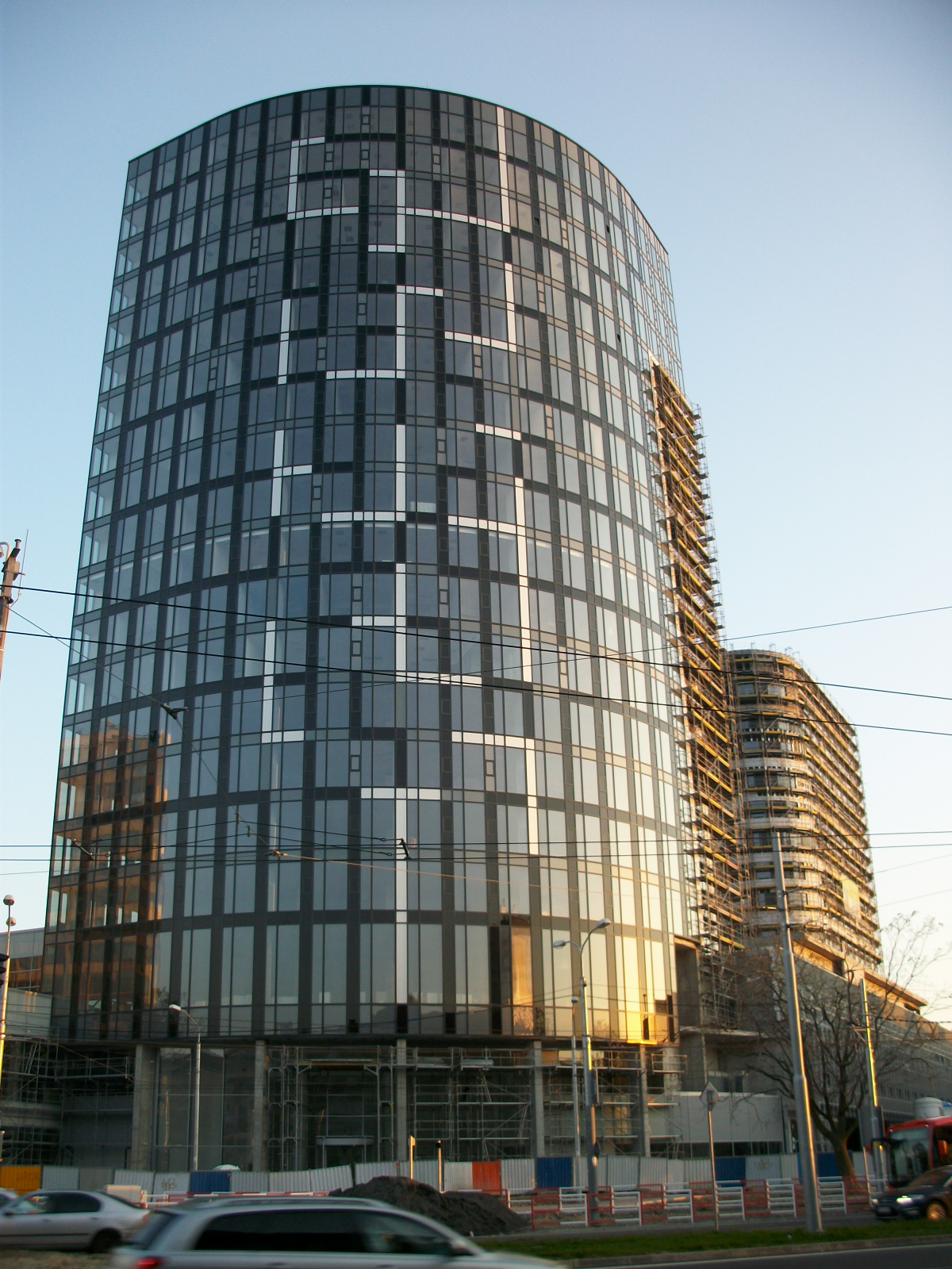 Central, mixed use building in Bratislava